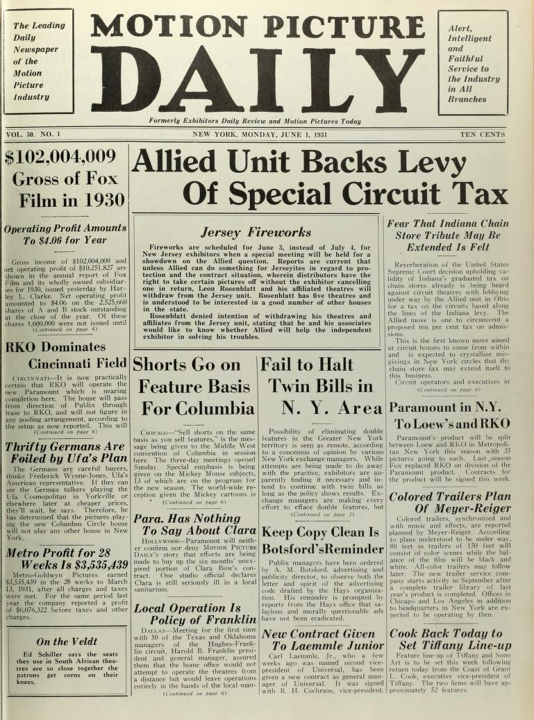 The front page of the premiere issue of Motion Picture Daily Other information for an explanation of the copyright for information regarding public domain